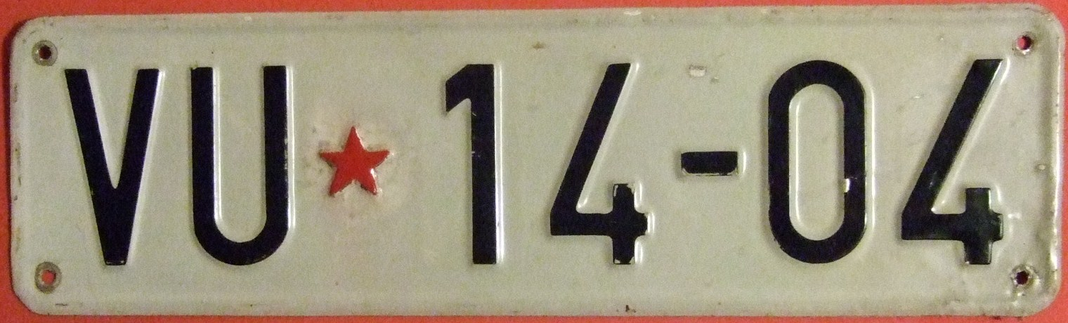 License plate from the SFR Yugoslavia, SR Croatia, VU = Vukovar, 1961-1992